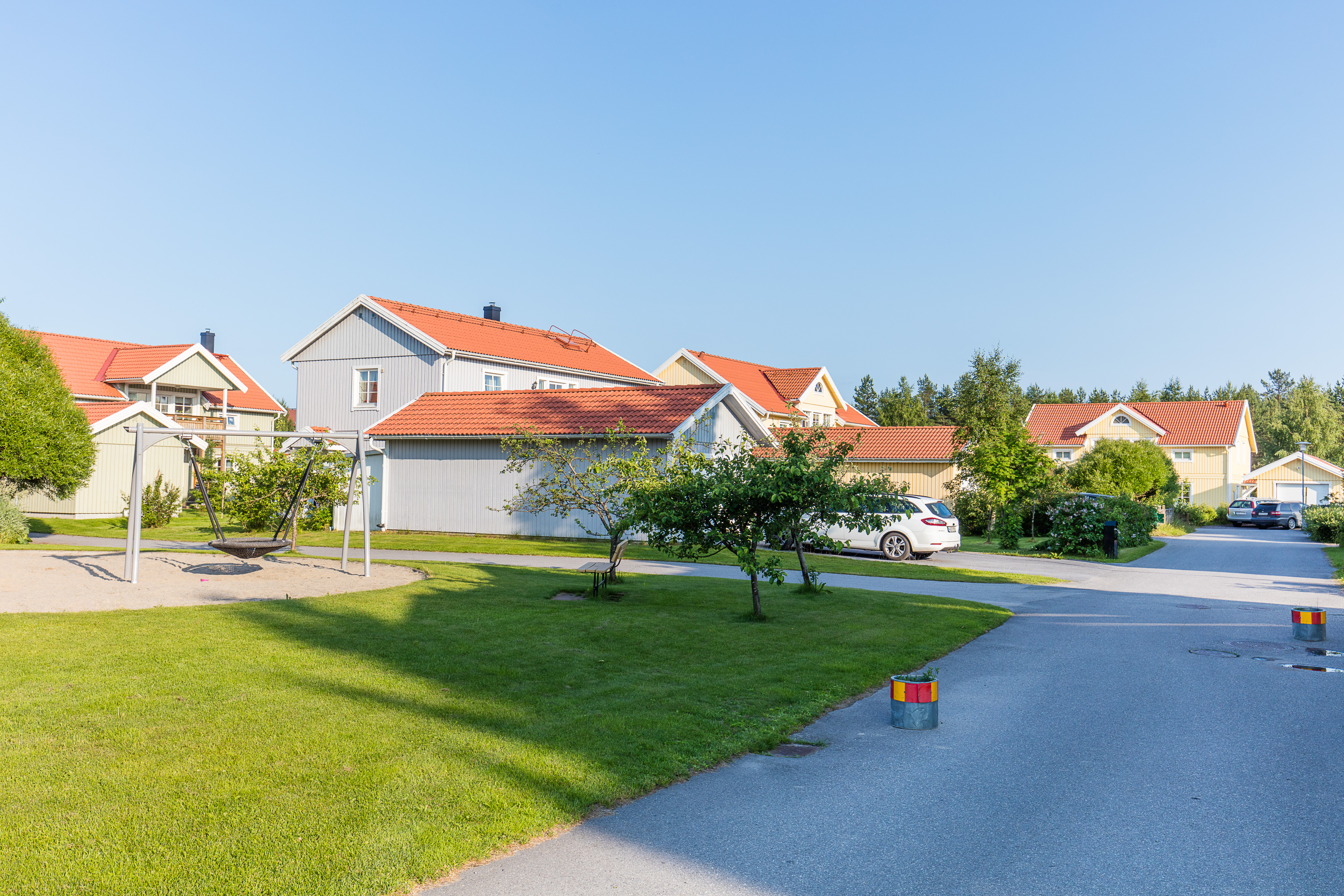 Tavleliden is a suburb i the eastern part of Umeå.